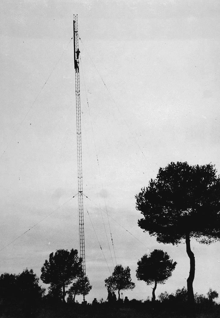 Setting the aerial for Ràdio Vilanova at Masia Padruell, Vilanova i la Geltrú. Аҧсшәа: Instalación de la antena para Ràdio Vilanova en Masia Padruell, Vilanova i la Geltrú